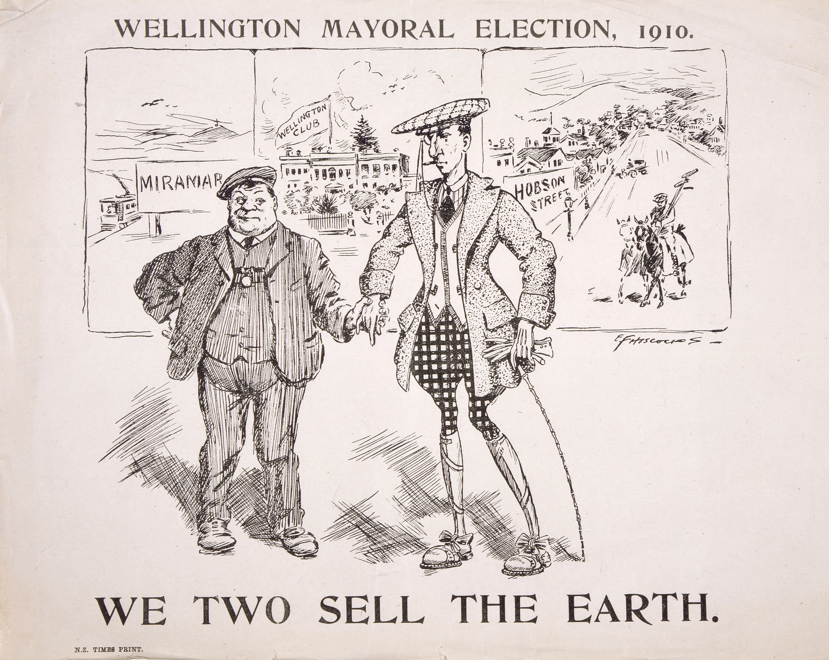 Shows election candidates, one of whom is probably Thomas Wilford (right), hand in hand, in front of tripart panel showing Miramar, Hobson Street, and the Wellington Club.